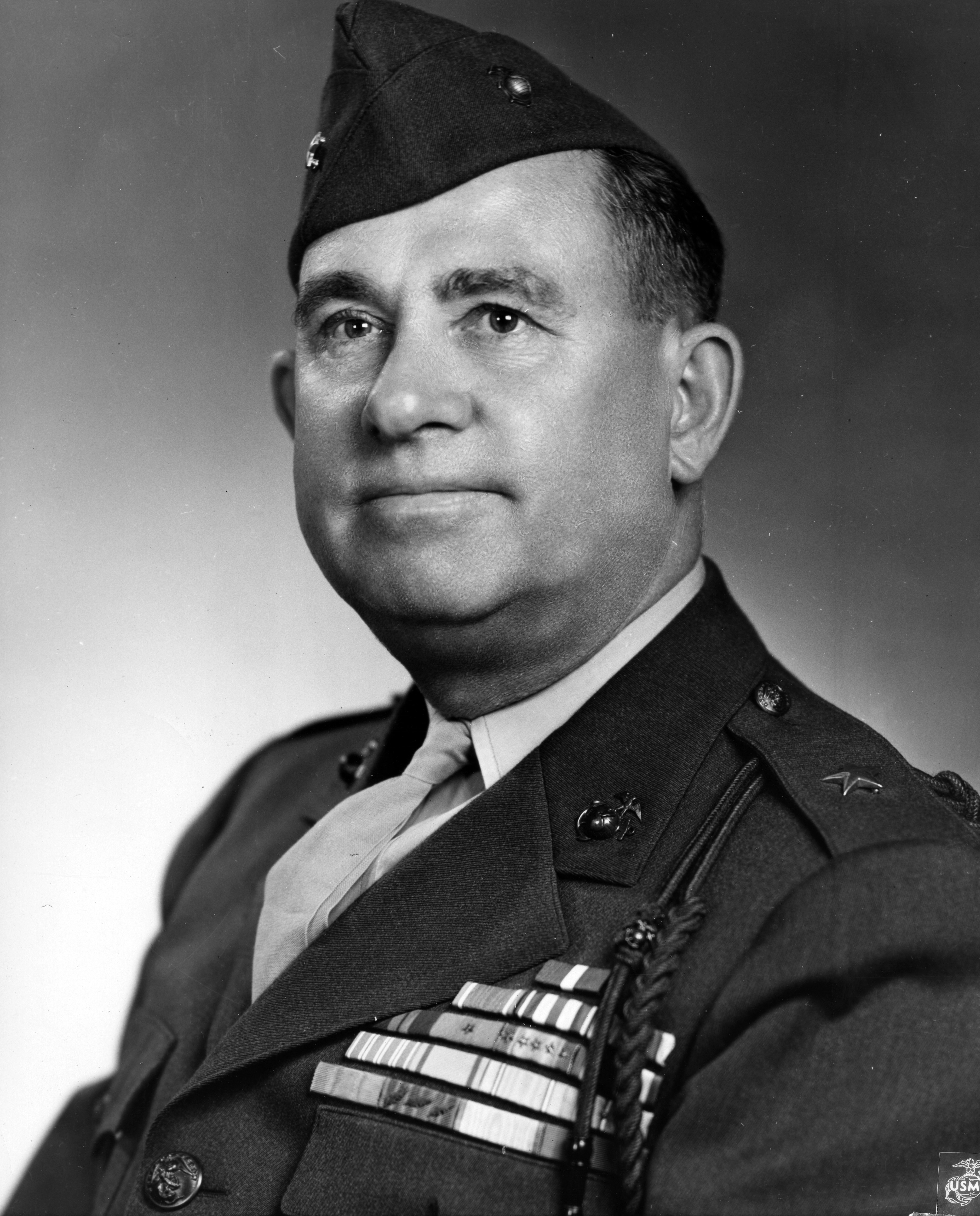 Alphonse DeCarre (November 15, 1892 – May 3, 1977) was a highly decorated Major General in the United States Marine Corps. He was a recipient of the second highest decorations of the Army and Navy, the Distinguished Service Cross and the Navy Cross, both of which he earned during his service in World War I.